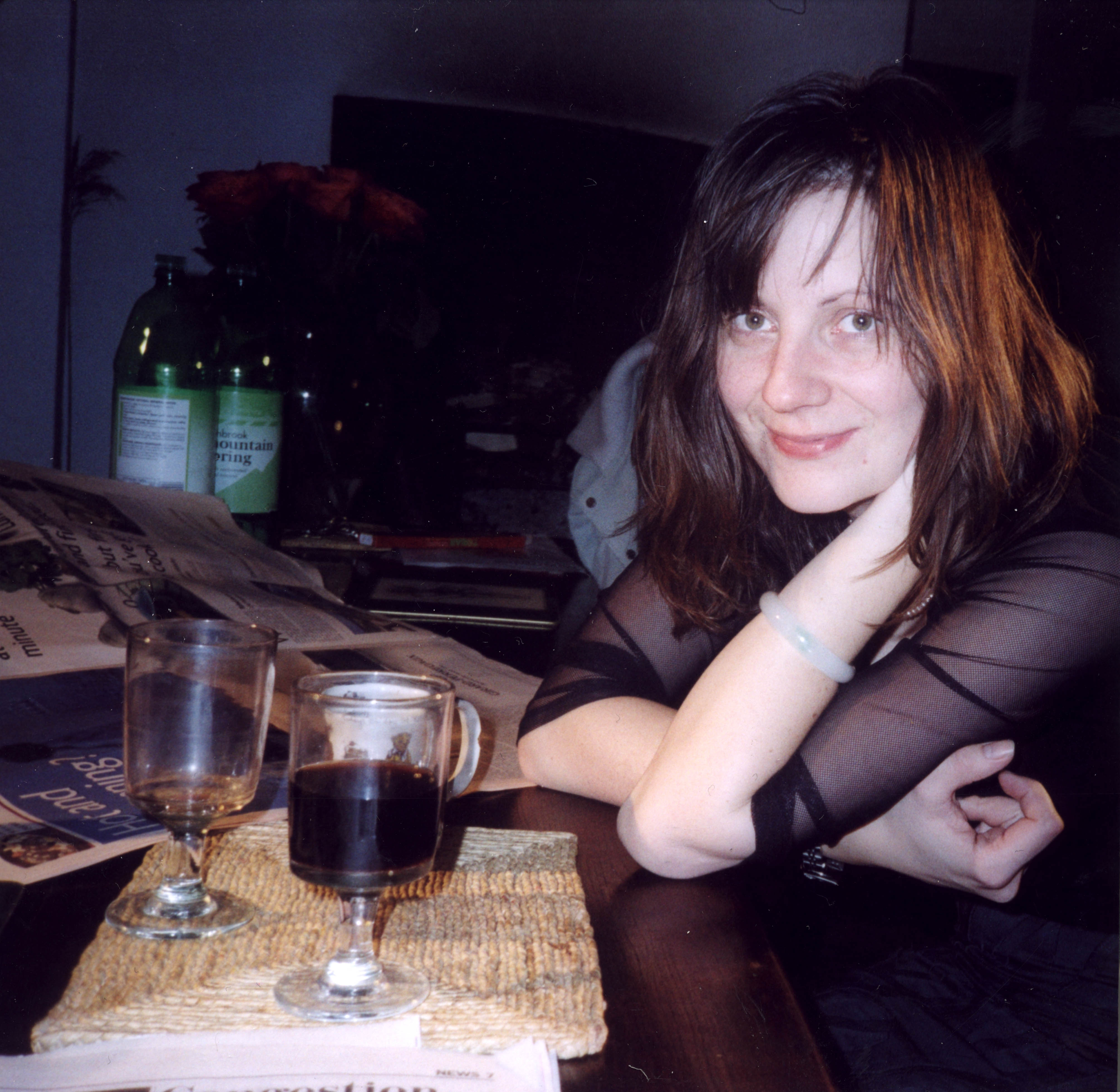 Photo Ruth Scurr